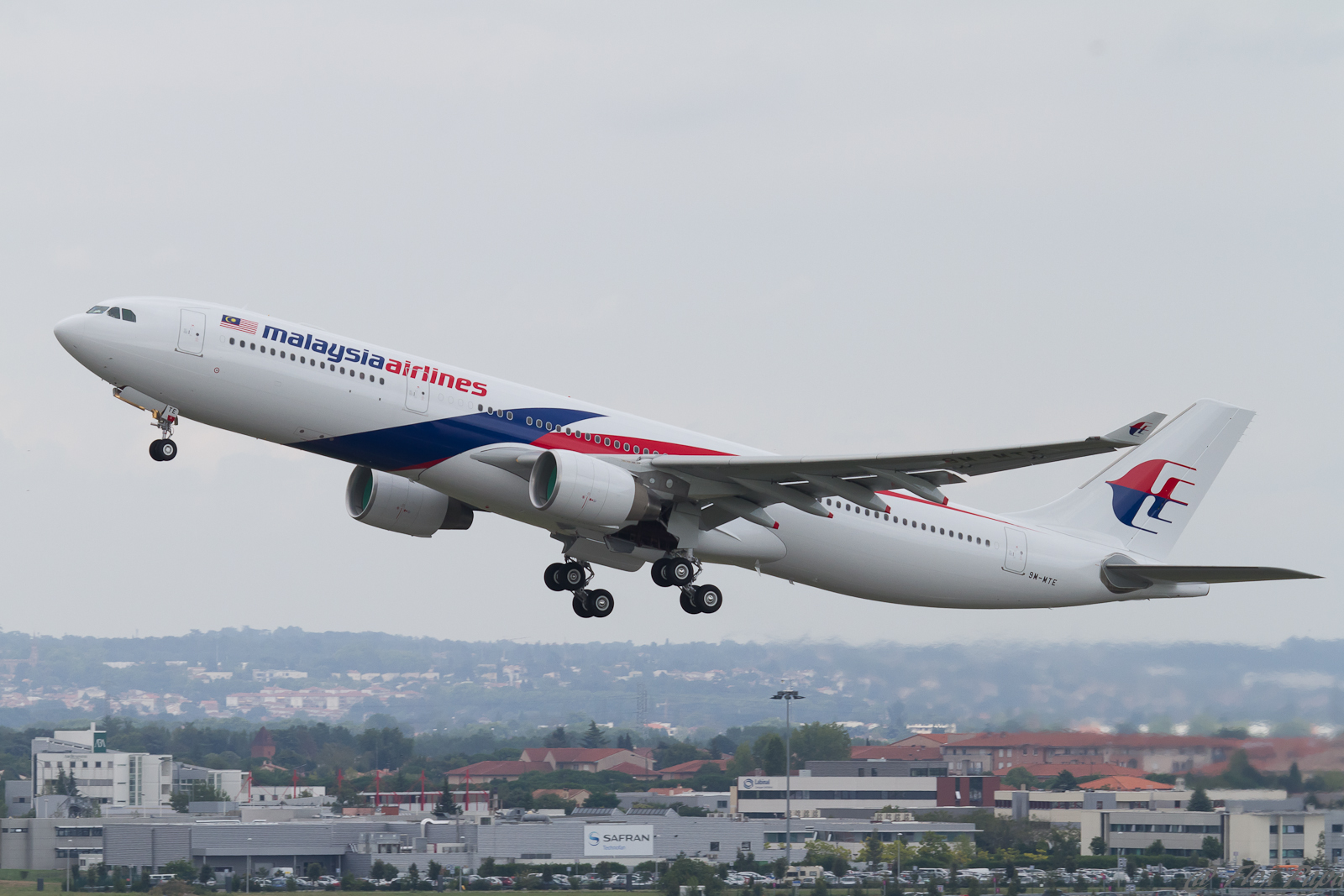 Malaysia Airlines Airbus A330-323E msn 1243 9M-MTE (F-WWYP)